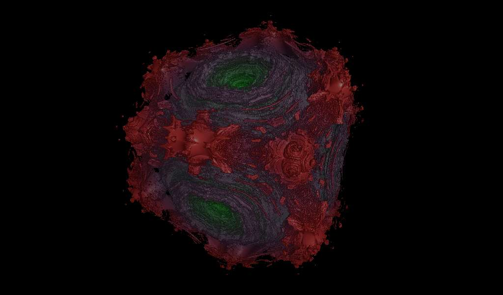 A fractal from a quintic function